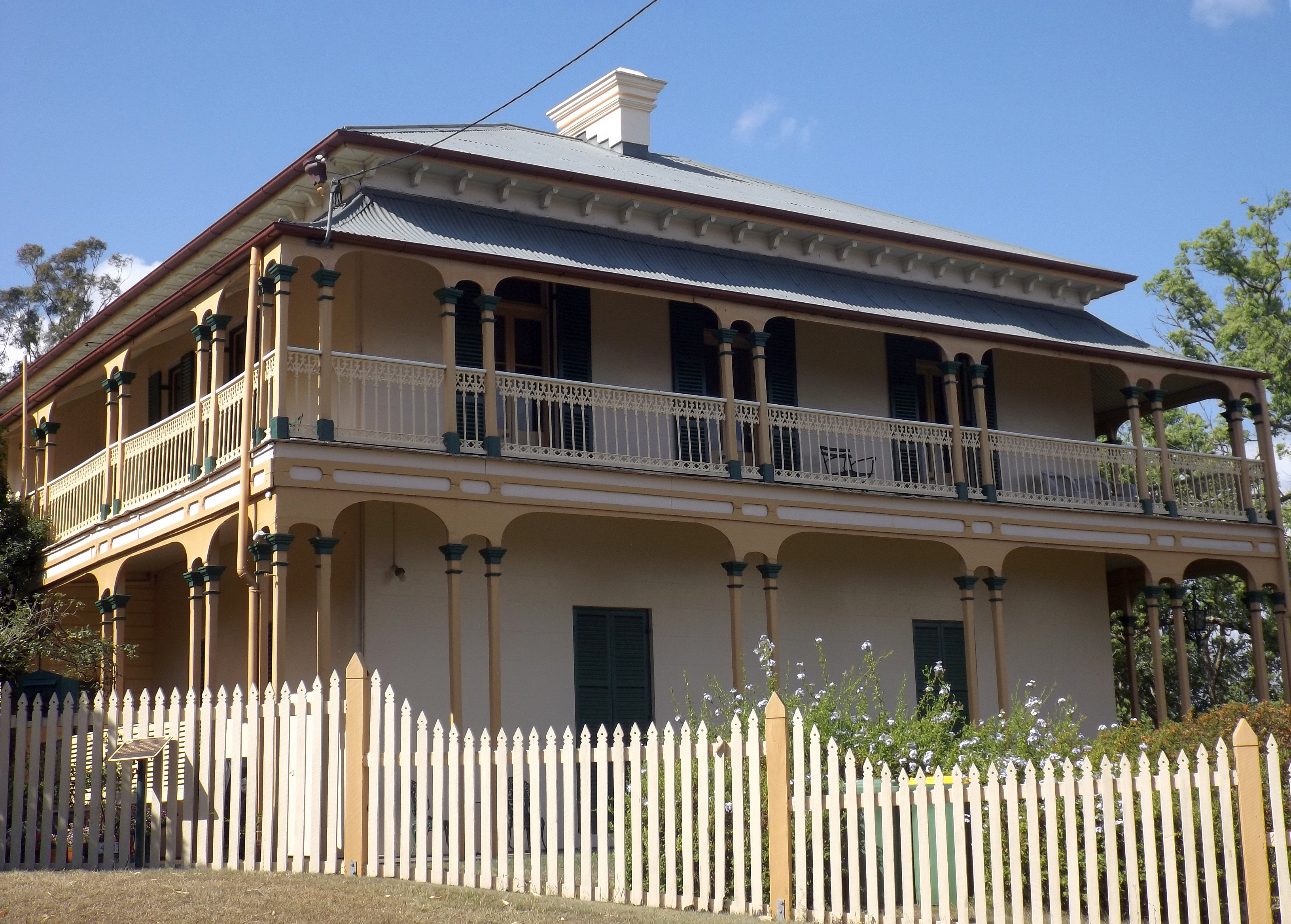 Photo of Gooloowan residence from Outridge Street, Ipswich, Queensland, Australia.